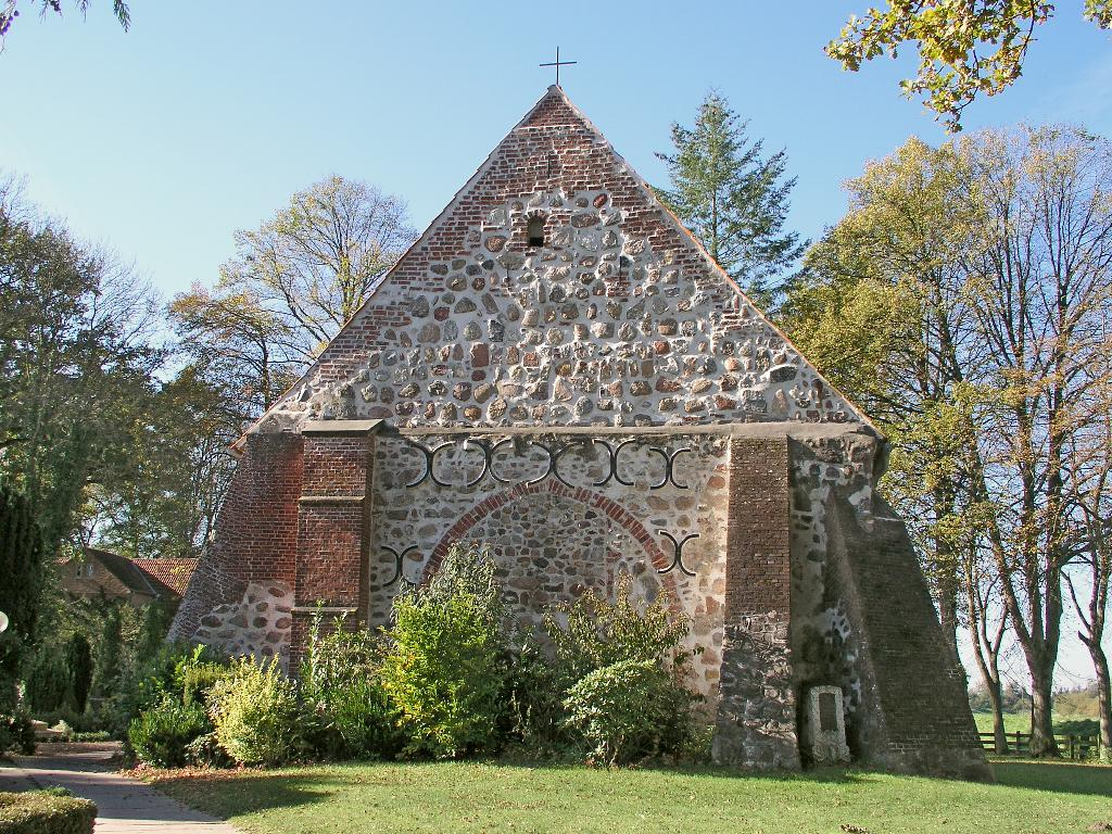 Wrist, Schleswig-Holstein, Germany: church of Stellau, photo 2007